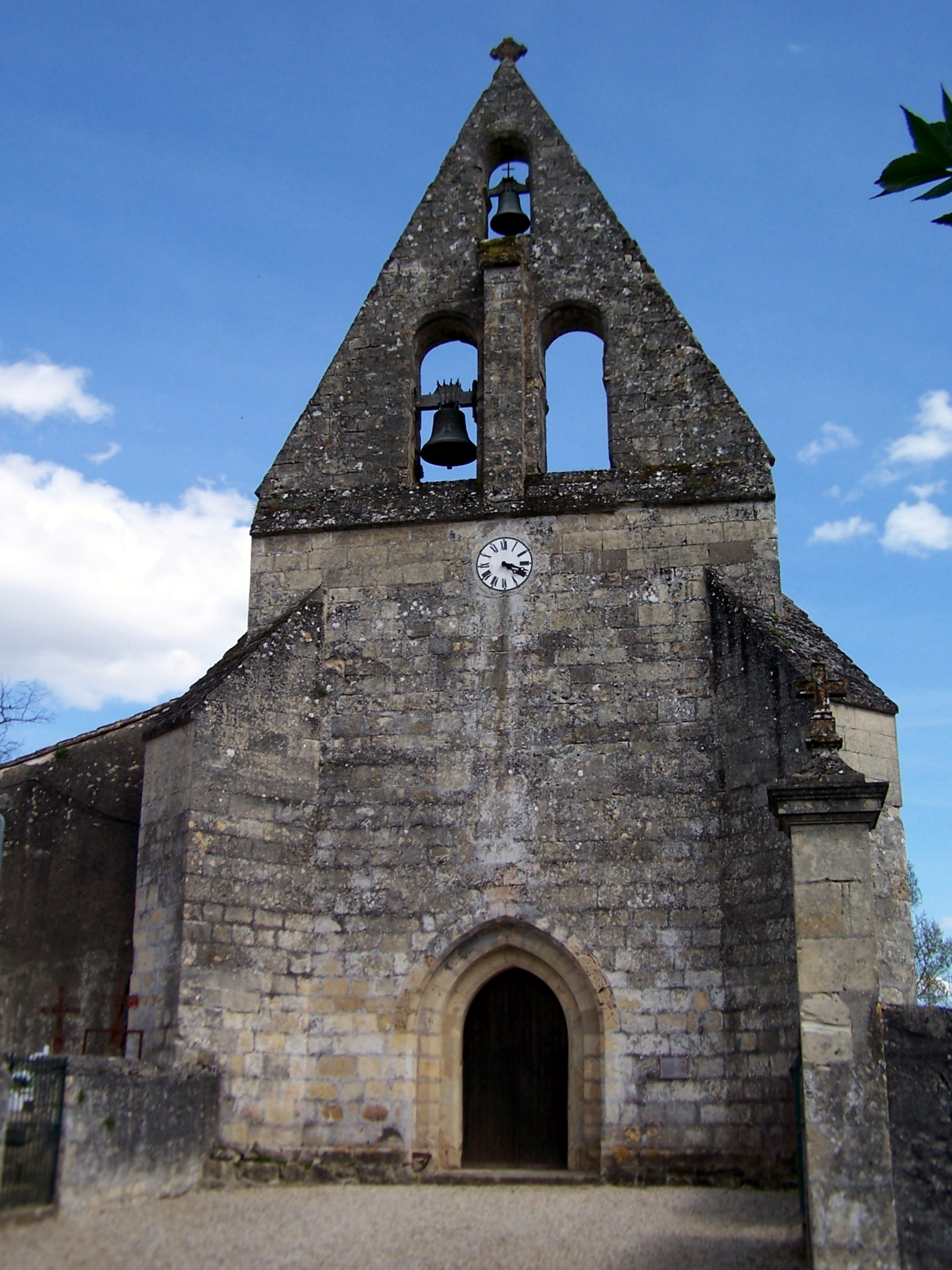 Saint Peter in chains church of Saint-Pierre-de-Bat (Gironde, France)